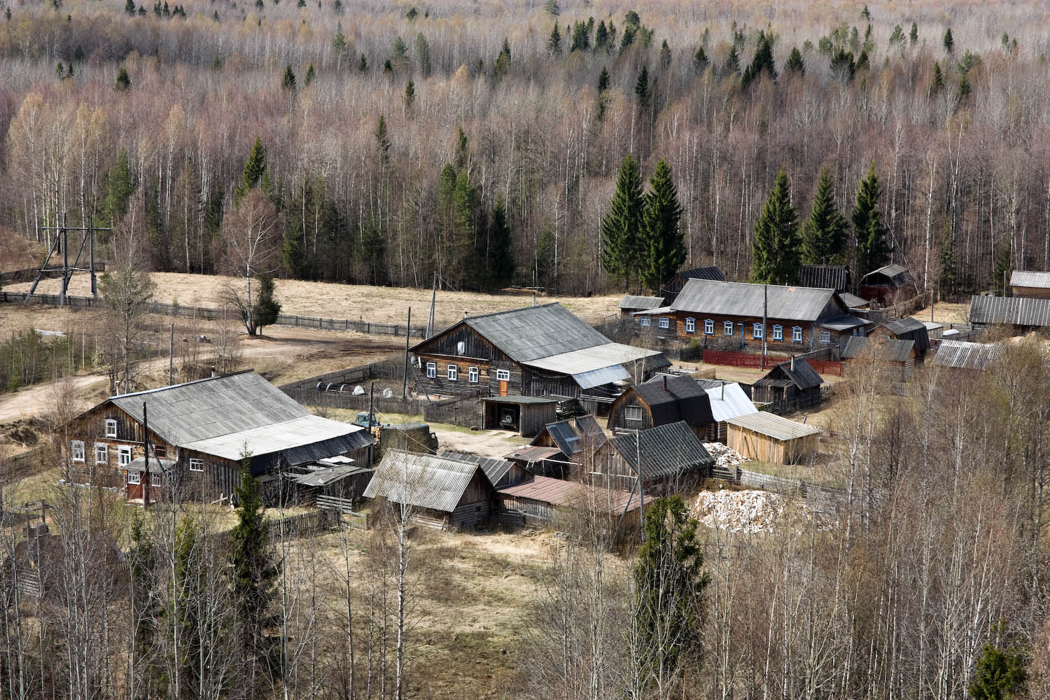 Bystrukha, Nizhny Novgorod Oblast. View from tower.